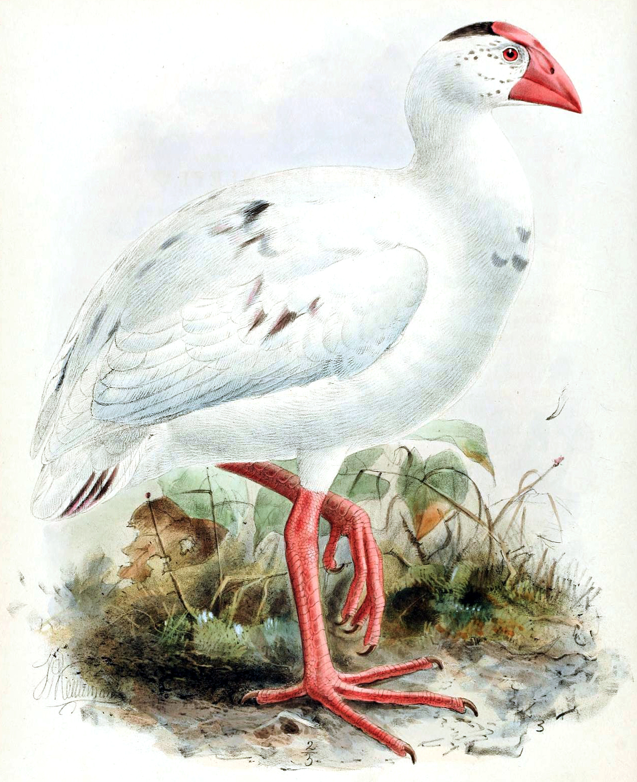 Holotype of Porphyrio stanleyi, a synonym of Porphyrio alba, one of two specimens in existence.